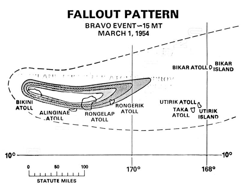 Path of nuclear fallout plume after U.S. nuclear weapons test Bravo (yield 15 Mt) on Bikini Atoll. It is the single worst contamination accident in U.S. nuclear history. The test was part of the Operation Castle. The Bravo event was an experimental thermonuclear device surface event.